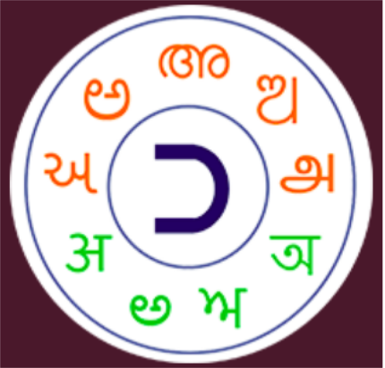 Bharathi_lipi_logo